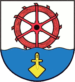 Coat of arms of the municipality Sprakebüll in Schleswig-Holstein, Germany.